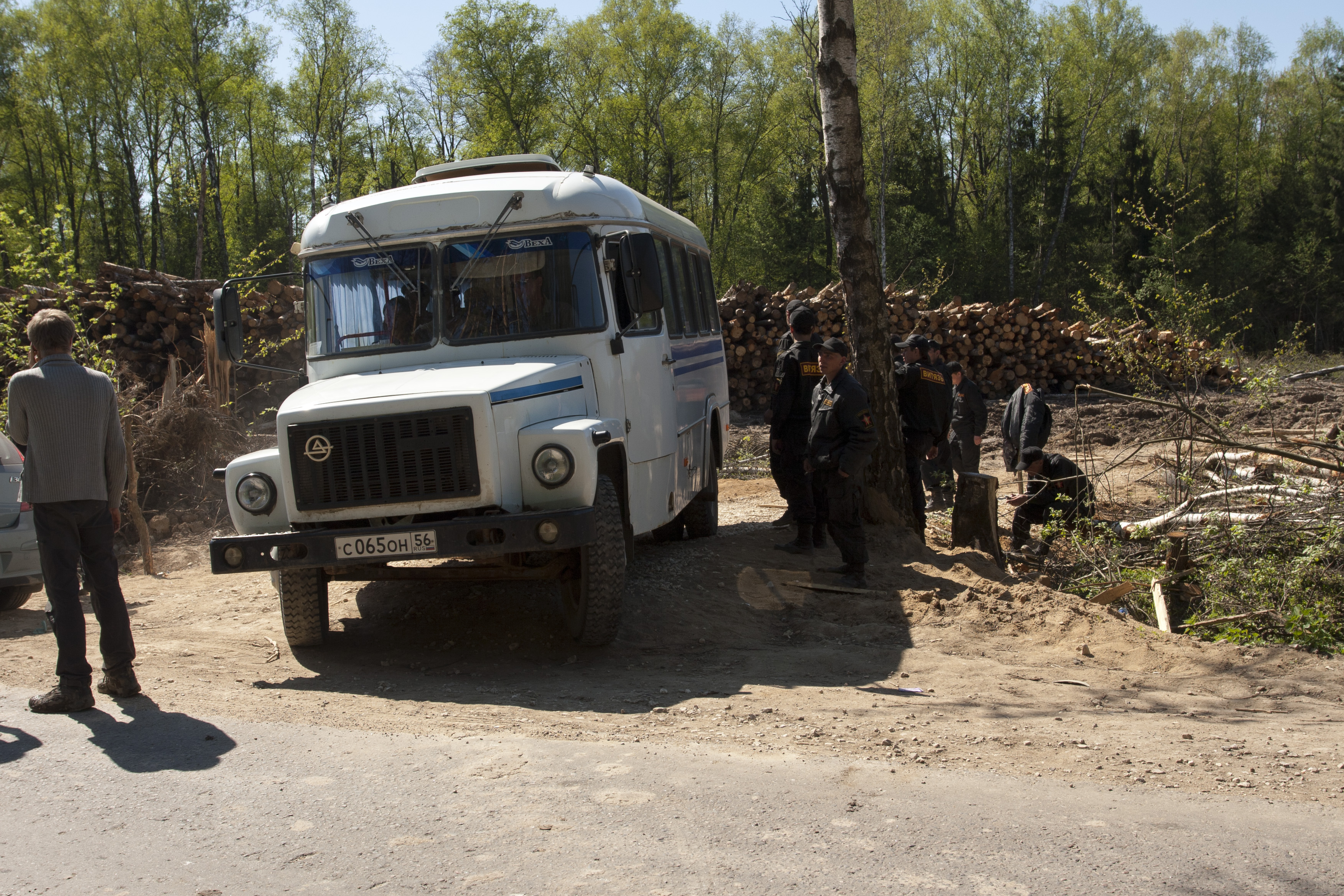 Offroad bus in Khimki Forest